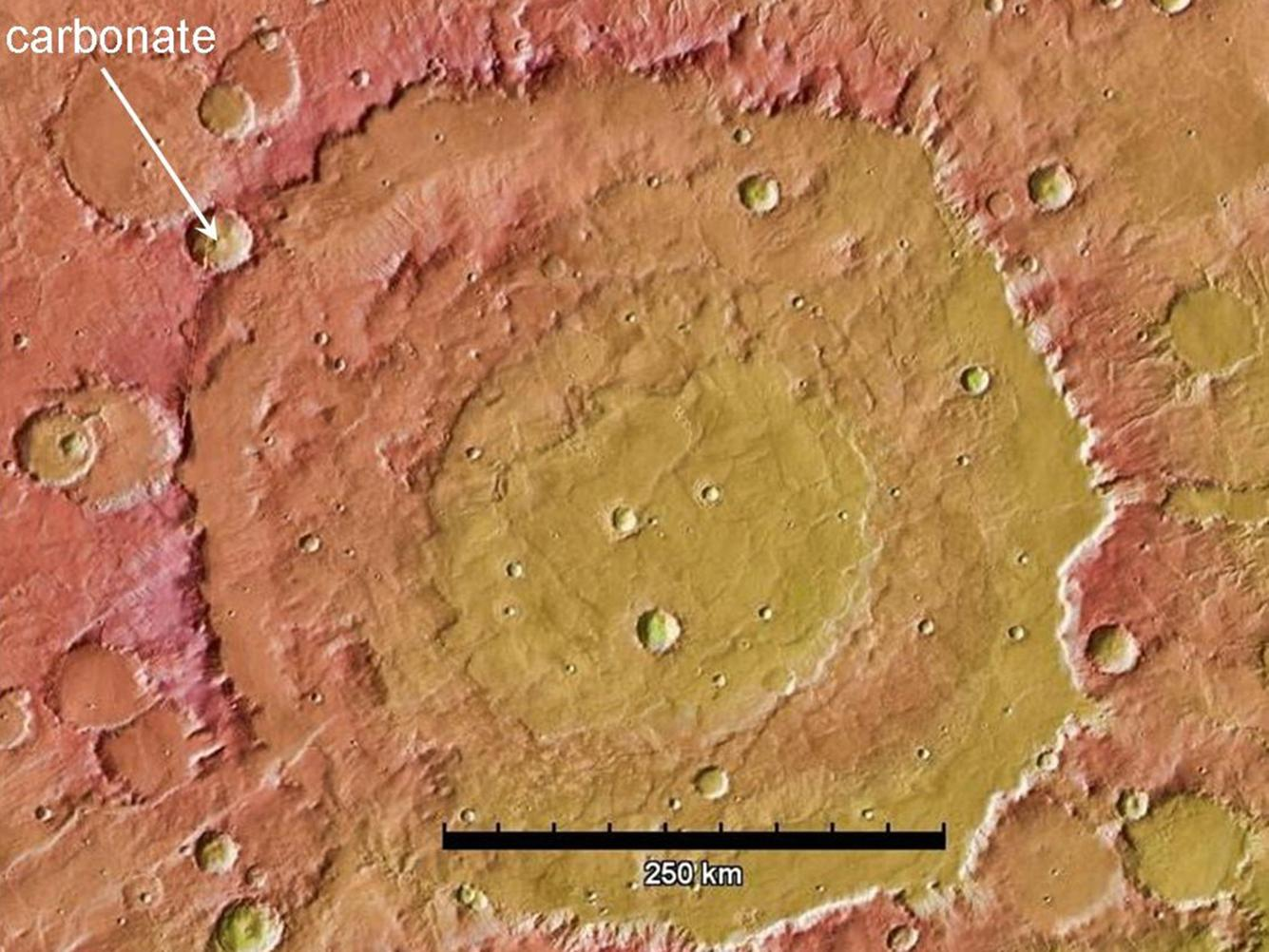 Picture of Huygens crater with a circle that indicates where carbonate has been found.